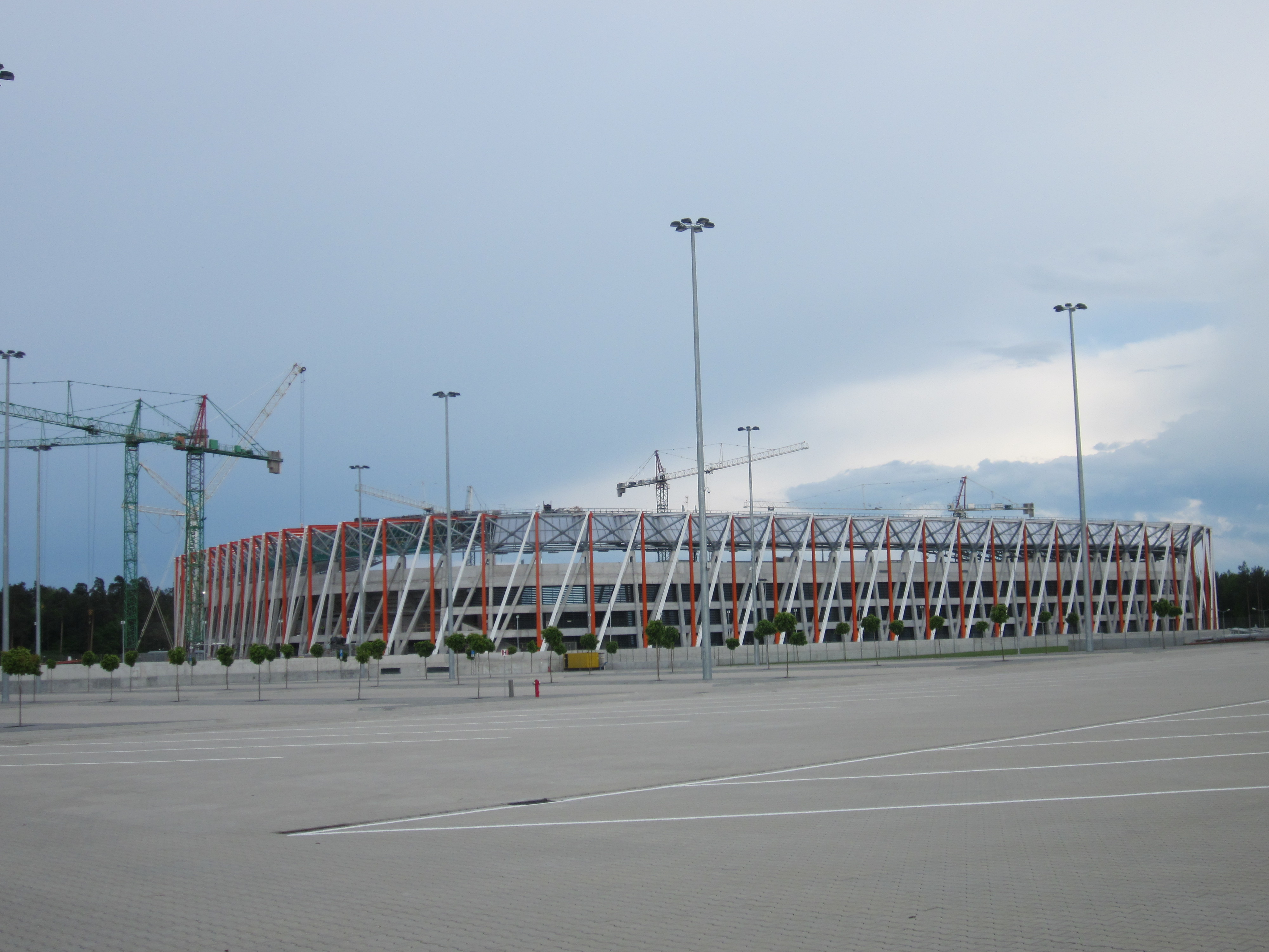 Construction of the Białystok Municipal Stadium, at Słoneczna street